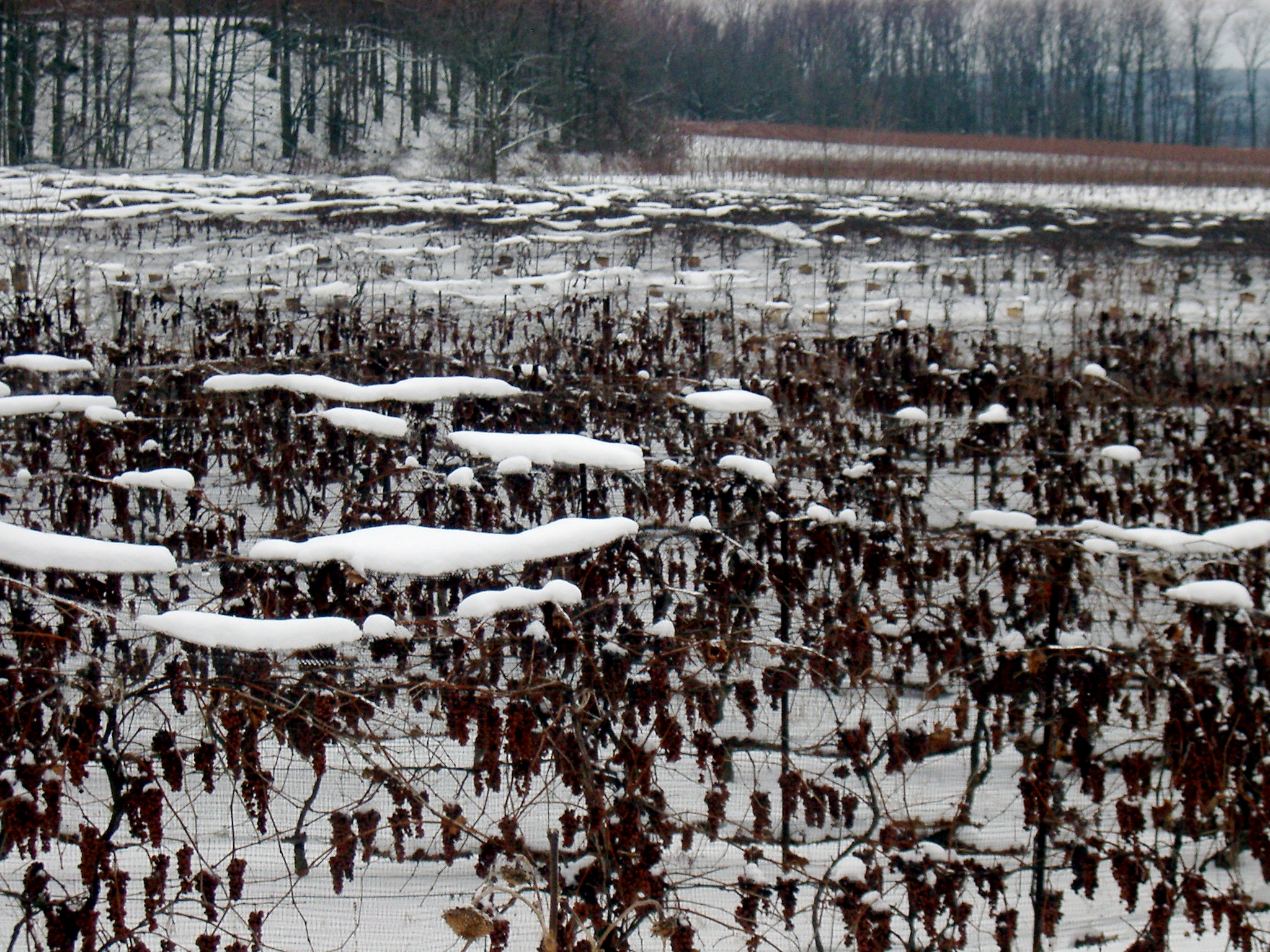 Still on the vine, this is how ice wine is harvested. Usually at about 4am when the temperature is just perfect for picking these grapes that become the nectar. Flatrock Cellars